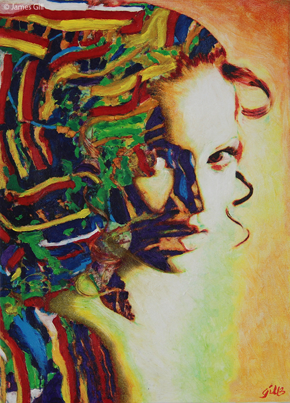 James Gill's painting "Behind the shadow (retudy)", 2003